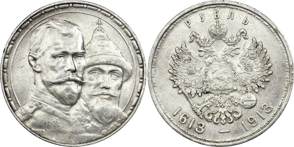 1 Rouble commémorant le 300e anniversaire de la Dynastie des Romanov, 1913